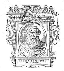 Illustratio from "Le Vite" by Giorgio Vasari, edition of 1568. For the artist portrayed see filename